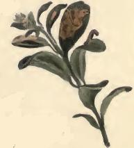 Stainton’s Natural History of the Tineina (1855–1873): Coleophora vitisella sprig of Vaccinium vitis-idaea with mined leaves and a larva-case attached